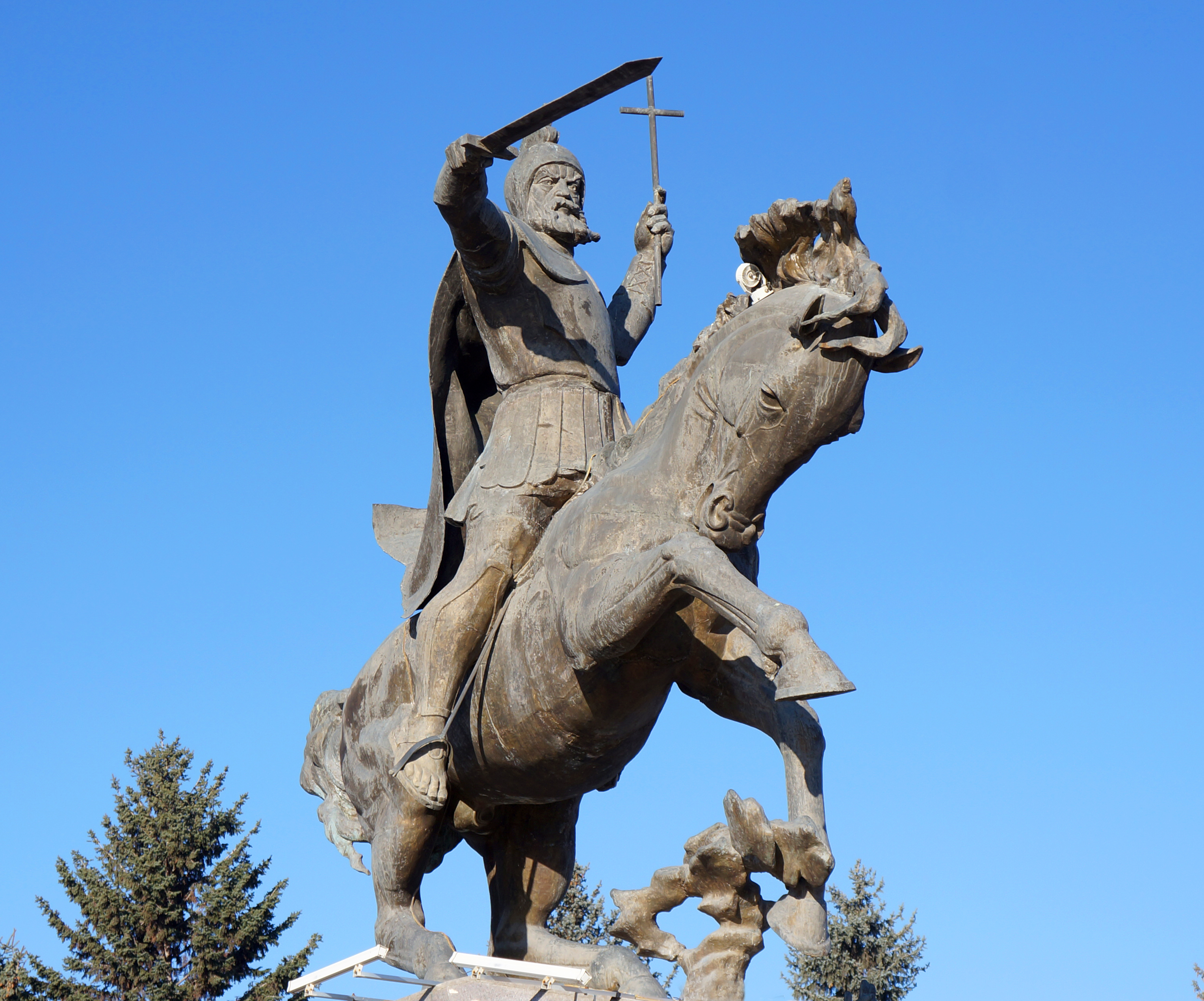 The statue of Vardan Mamikonian (Armenian military leader) in Gyumri.